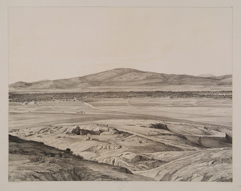 Panoramablatt Nro 6 (Korydallos) - Stademann August Ferdinand - 1841